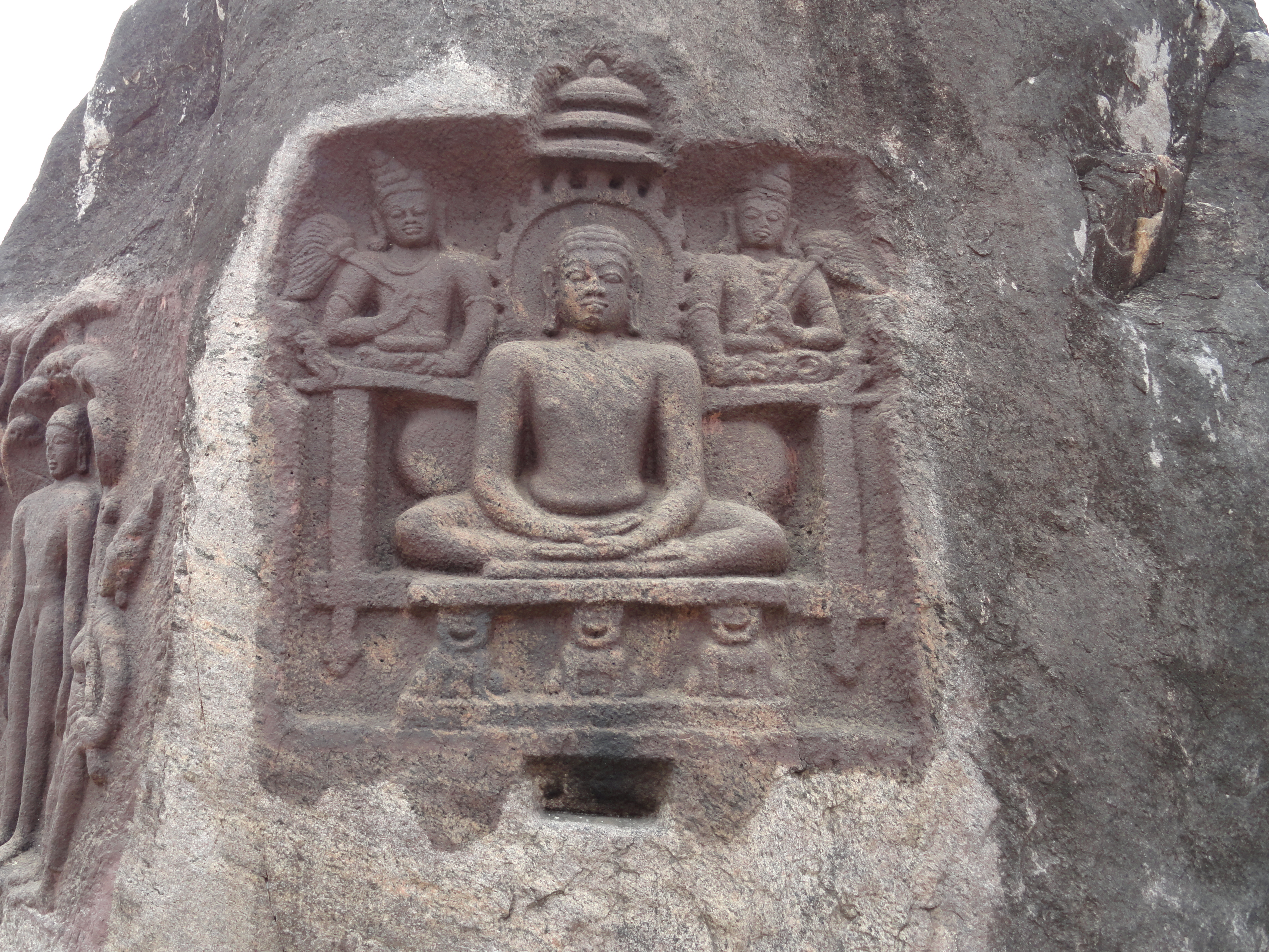 Photograph of Mahaveerar Sculpture present at Thirakoil Hill